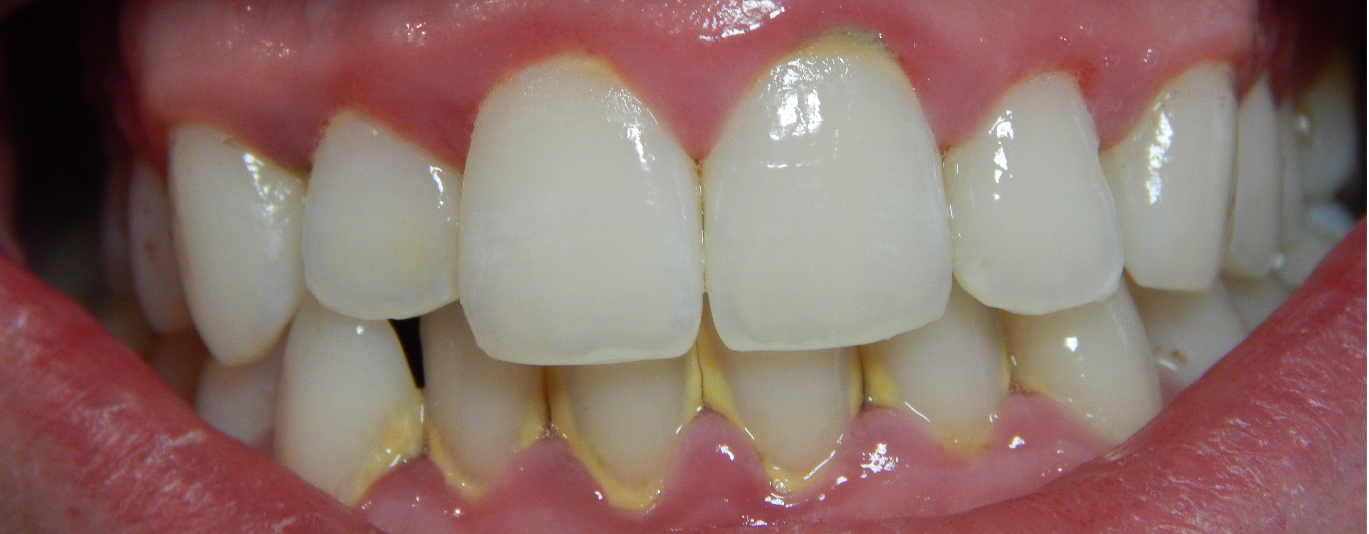 Gigivitis before treatment.